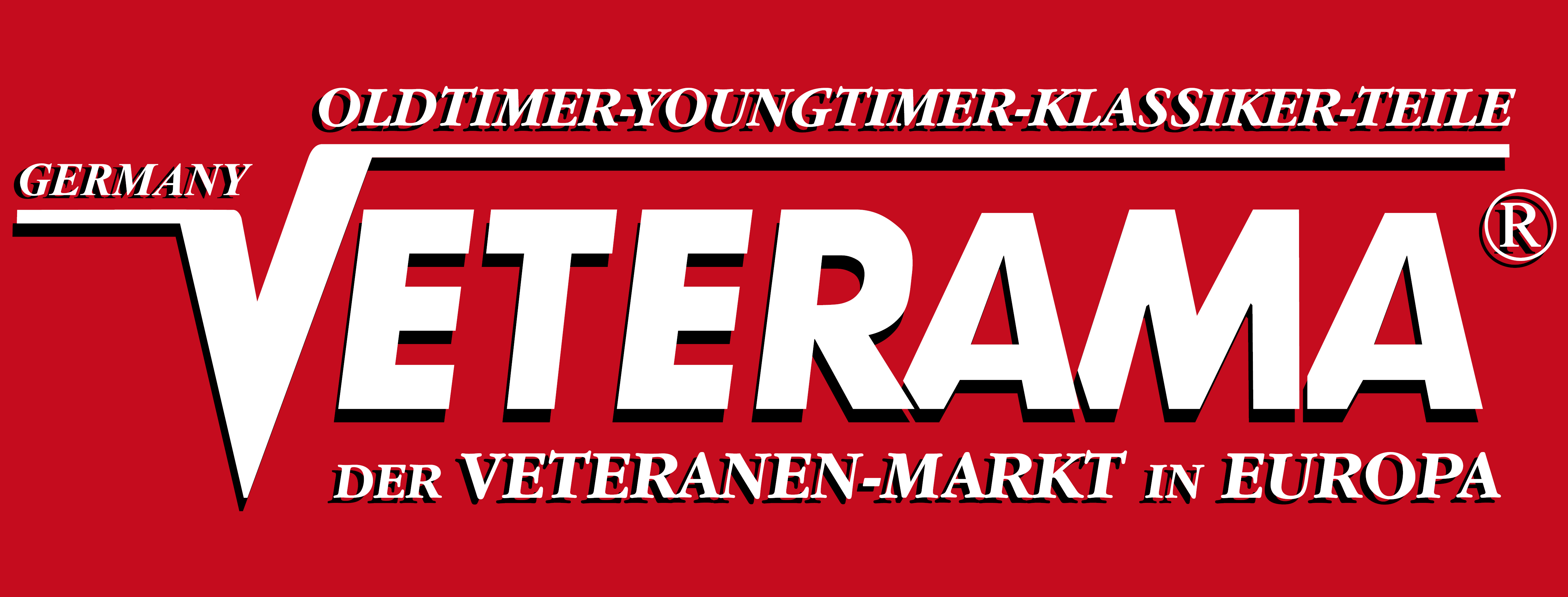 Veterama Logo